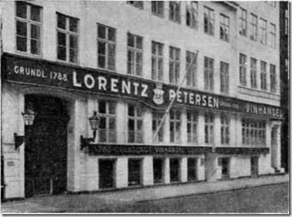 The Lorentz Petersen wine store (founded 1788 as mentioned on the facade) at Store Kongensgade 66 in Copenhagen, Denmark